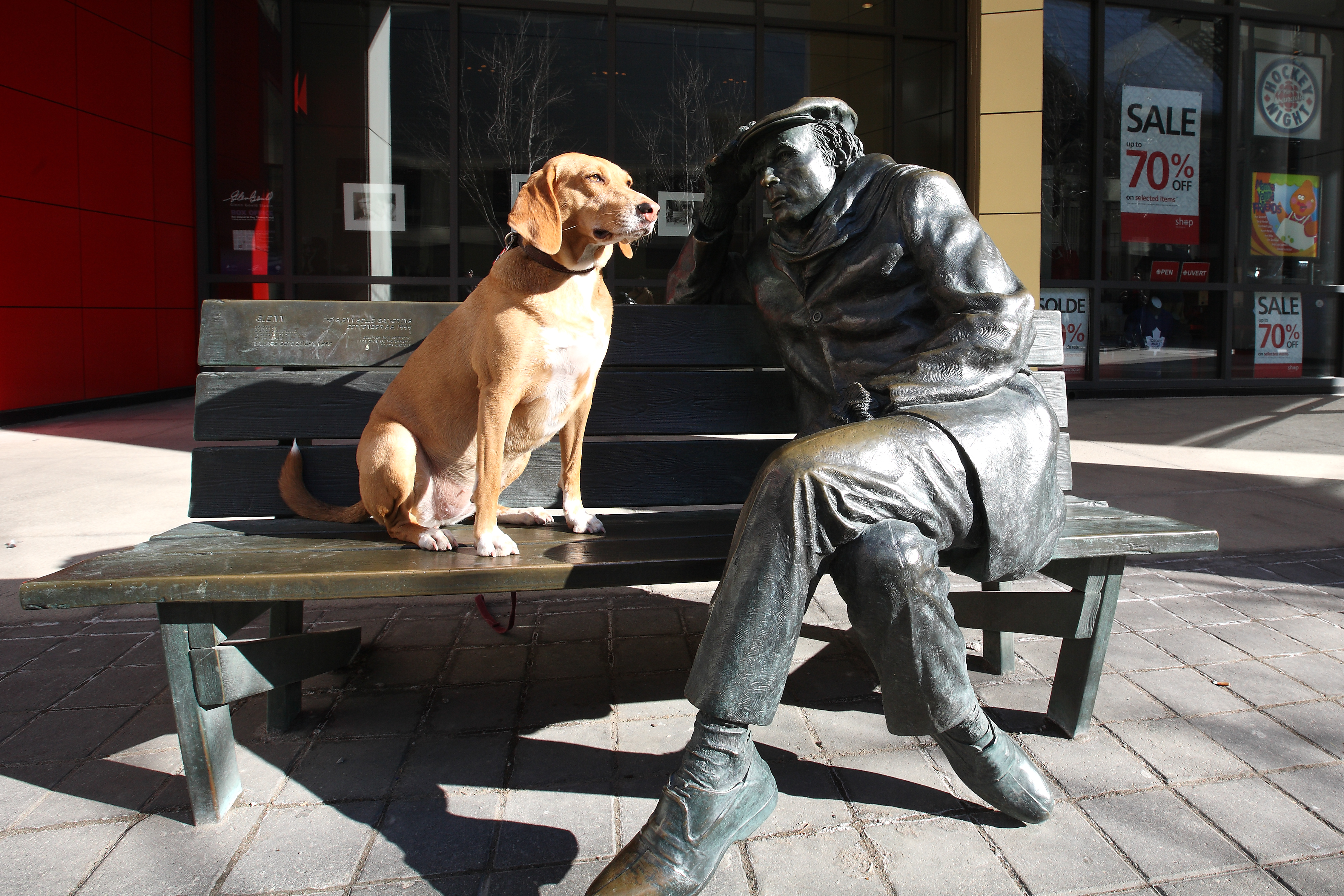 Glenn Gould statue and dog enjoying the springtime sun. Toronto, Canada.